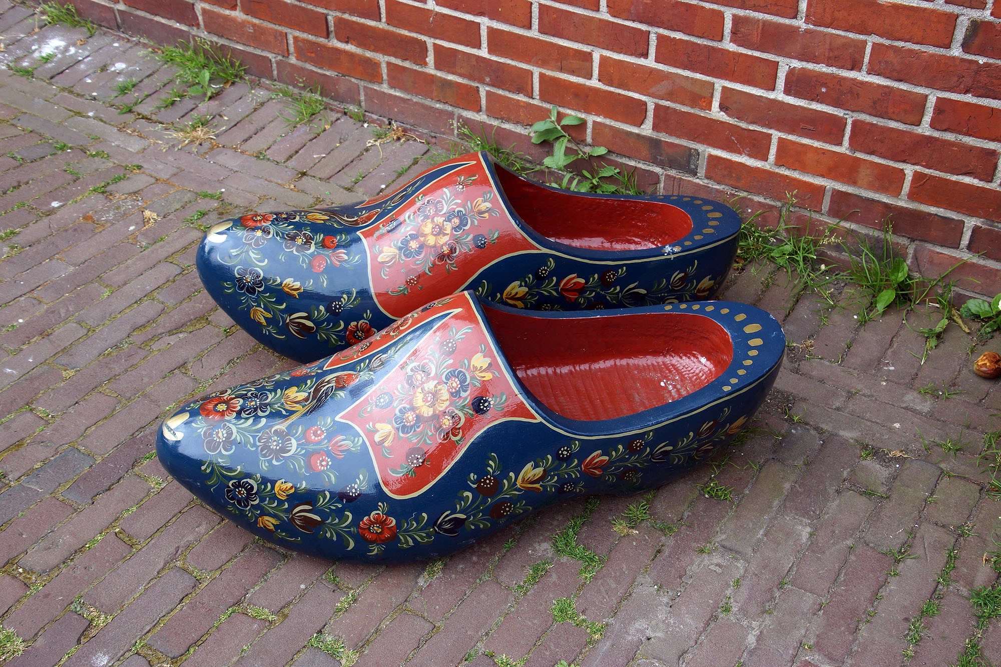 HINDELOOPEN, NL HINDELOOPEN (Wiki): IJSSELMEER